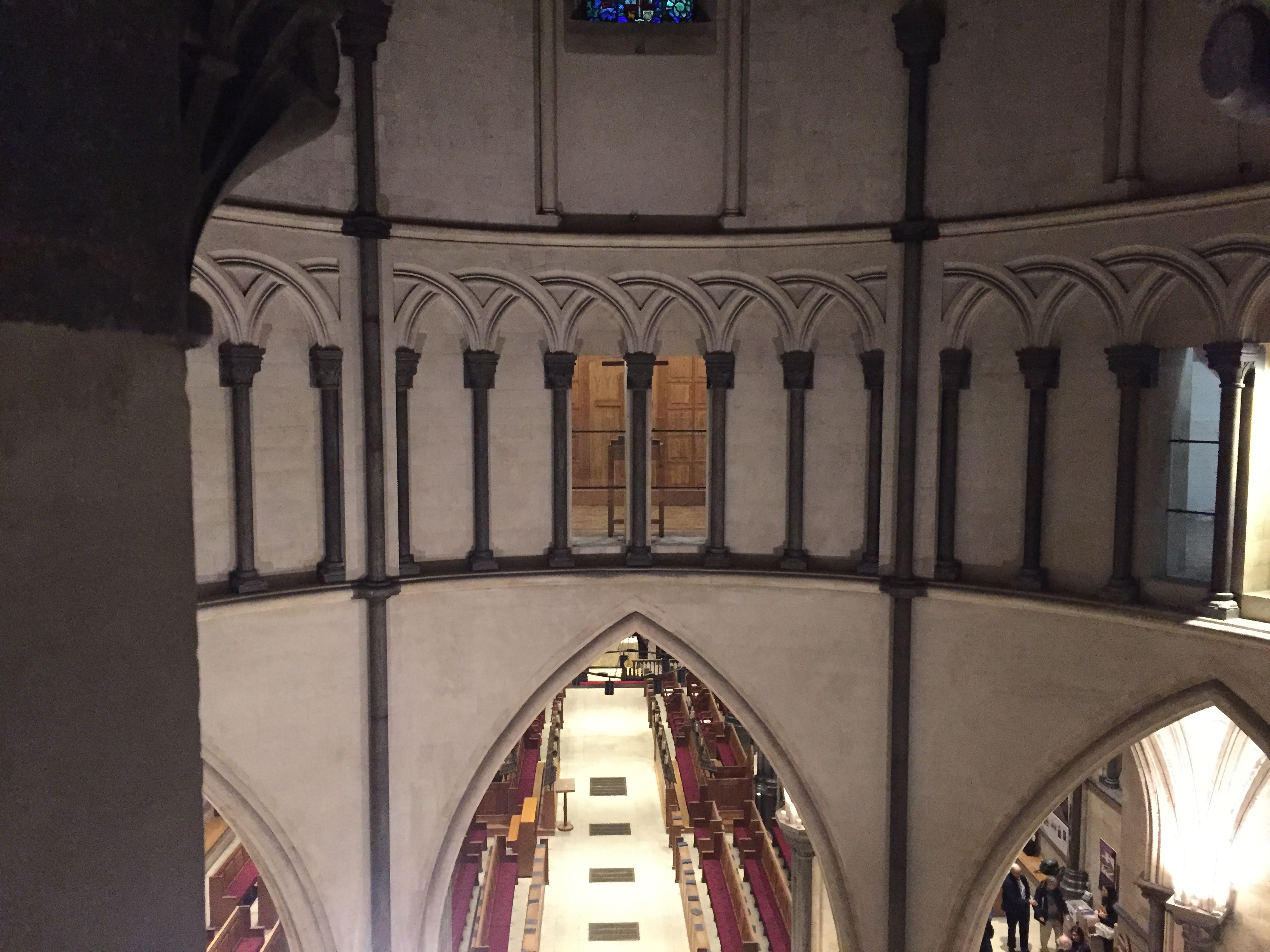 Interior of the circular triforium of the Round Church at the Temple Church in London, built for the Knights Templar in the 12th century